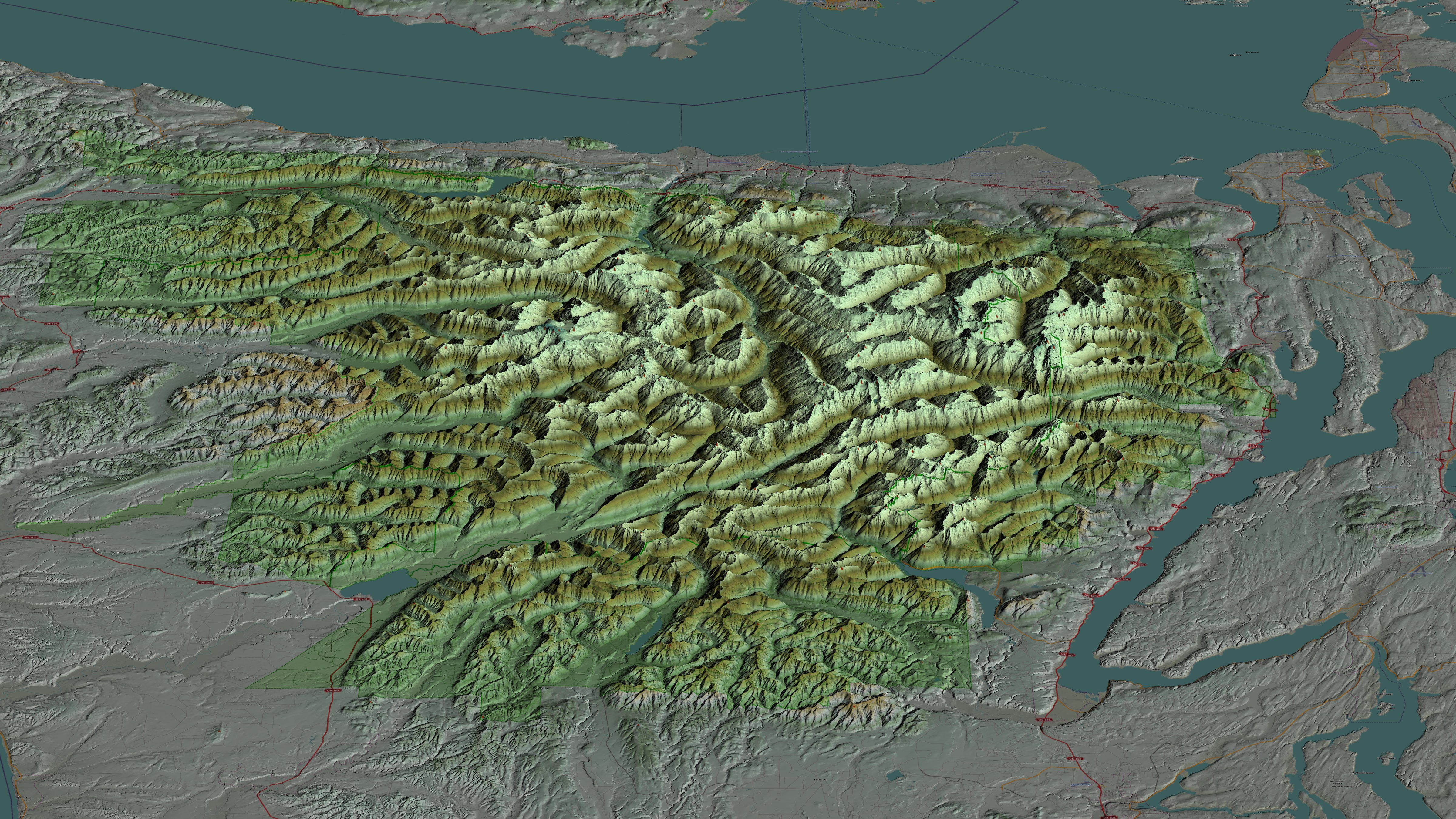 Olympic National Park, computer image generated using TruFlite